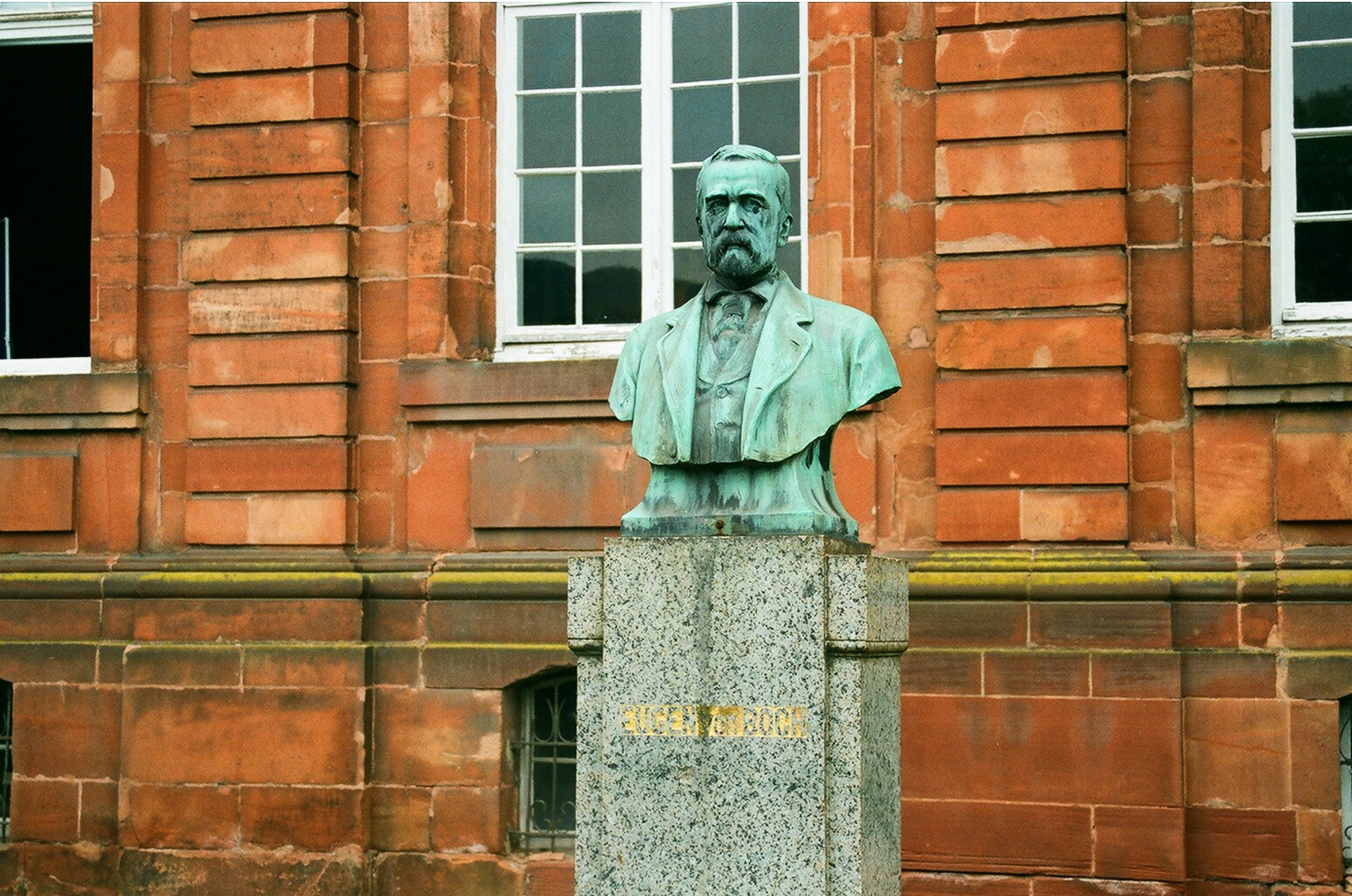 Mettlach, monument of Eugen von Boch